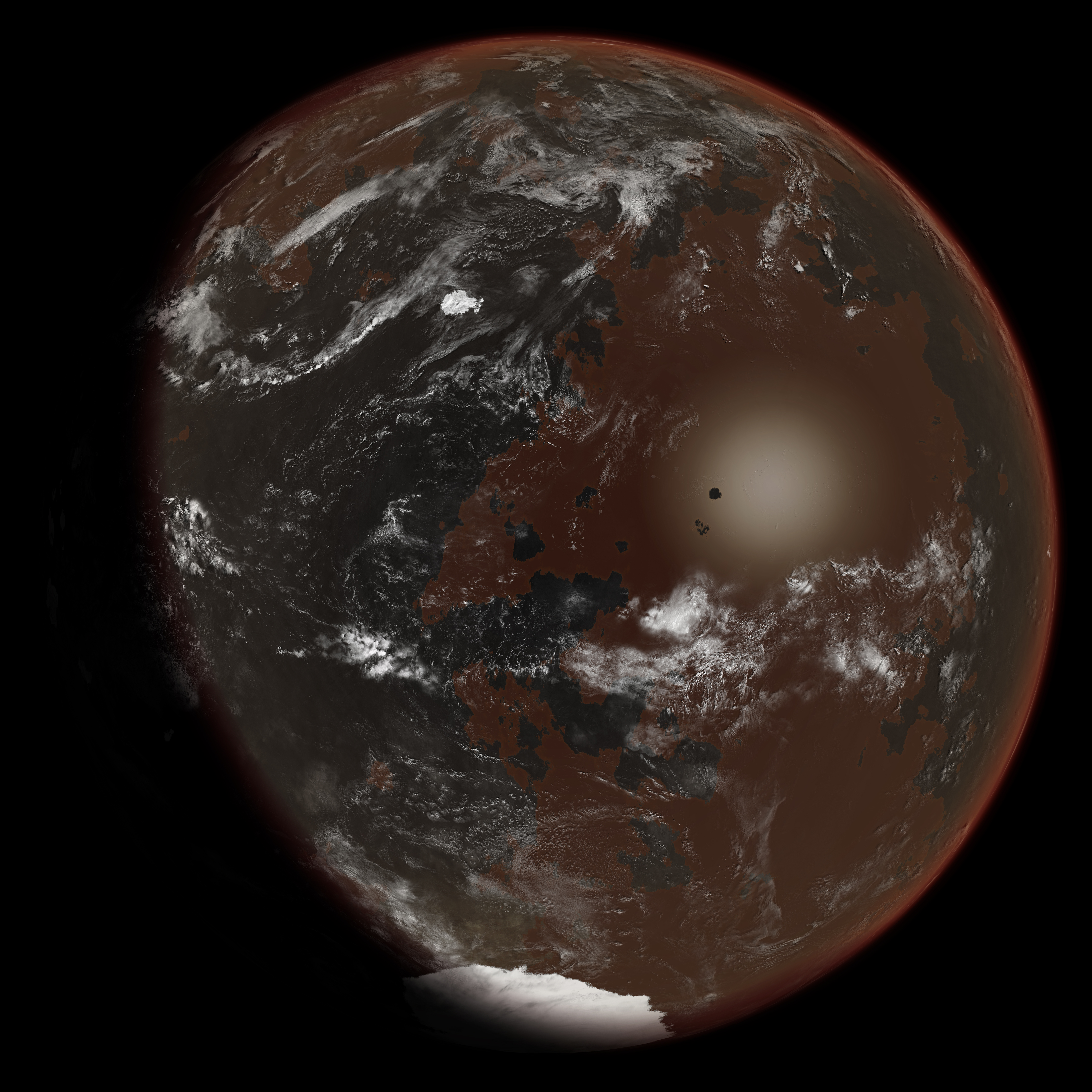 What an ammonia world, with an advanced stage of life, may look like. Rationale for appearance: The ammonia oceans, if it were just ammonia, would probably appear blue just like water. However unlike water ammonia can dissolve alkaline earth metals as if they were salt. When this happens the color changes. Dilute amounts of metal give it a an intense blue color, slightly higher concentrations give it a gold bronze color as shown here. The reddish orange color in the atmosphere is due to oxides of nitrogen (nitrogen analogs for oxygen). Like Earth the atmosphere is primarily diatomic nitrogen. Unlike Earth it contains next to no free oxygen, but has nitrogen oxidizers. Most probably nitrous oxide, but it could be nitric oxide. It's hard for me to figure out which would be more likely. The planet would be much colder than Earth, so I depicted the vegetation as black to collect more light. Unlike water worlds like Earth, plants on ammonia worlds may not need to deprotonate water (or ammonia) molecules to get an electron for photosynthesis. This is because the dissolved alkaline earth metals release solvated electrons that can be used directly. This could free up photosynthetic plants to use a wider range of the spectrum. Finally ammonia clouds and ice are white just like those of water.